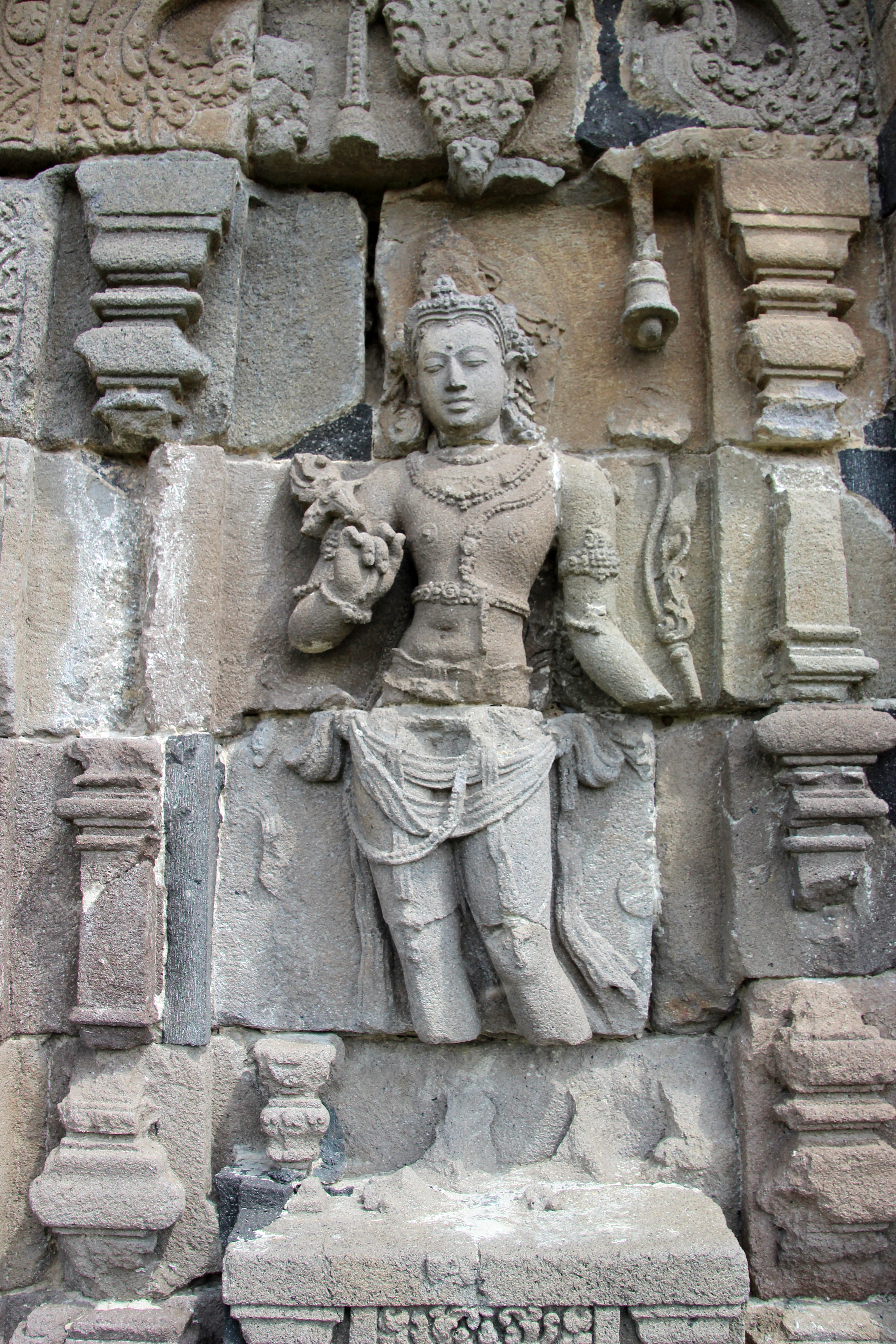 An exquisite bas-relief of Bodhisattva (probably Padmapani or Avalokiteshvara) adorning the outer wall of Candi Plaosan Lor southern main temple. A fine example of the 9th century classical Javanese Buddhist Sailendran art, Plaosan, Klaten Regency, Central Java.